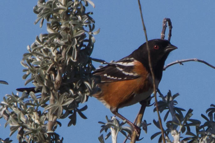 found during Winter Bird Festival Easy Birding class at the Cloisters